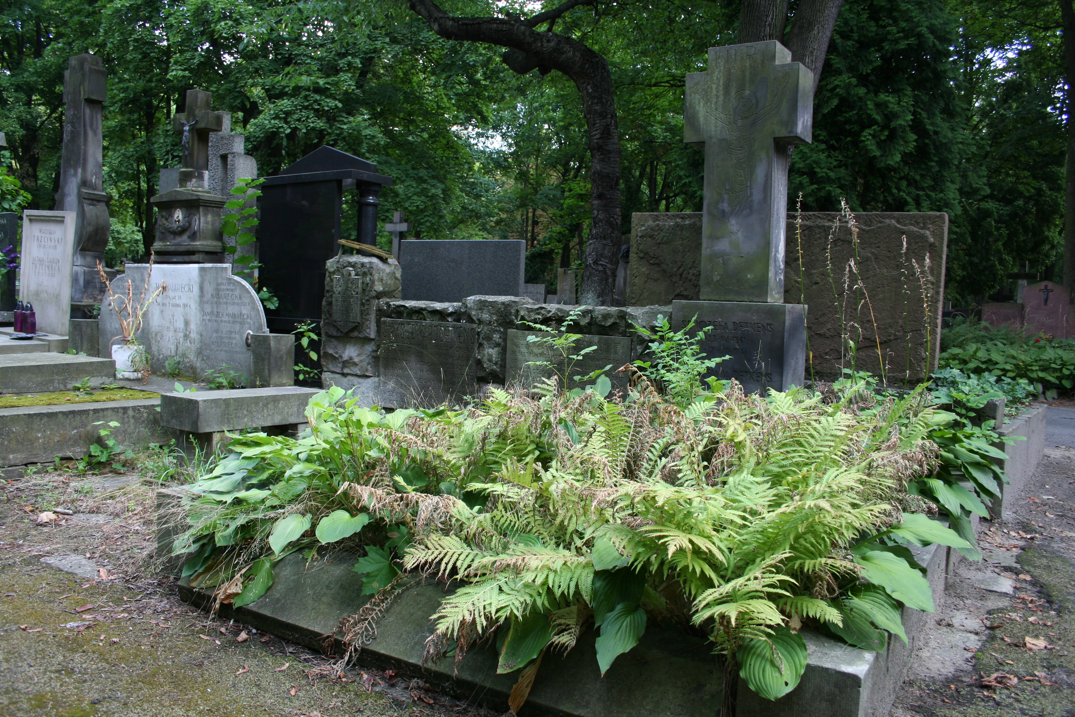 Symbolic grave of Edward Detkens at Powązki Cemetery in Warsaw, Poland